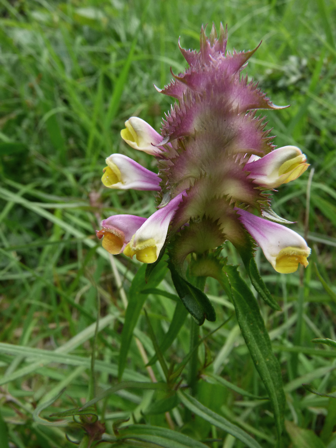 Melampyrum cristatum - Eifel, Germany